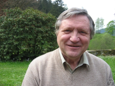 Mathematician Yuri V. Nesterenko at the workshop “Diophantische Approximationen” in Oberwolfach, 2007.